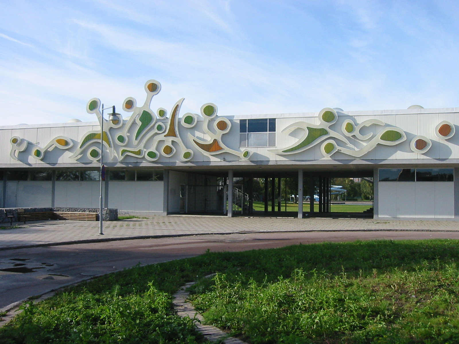 Lögarängsbadet in Västerås, the entrance